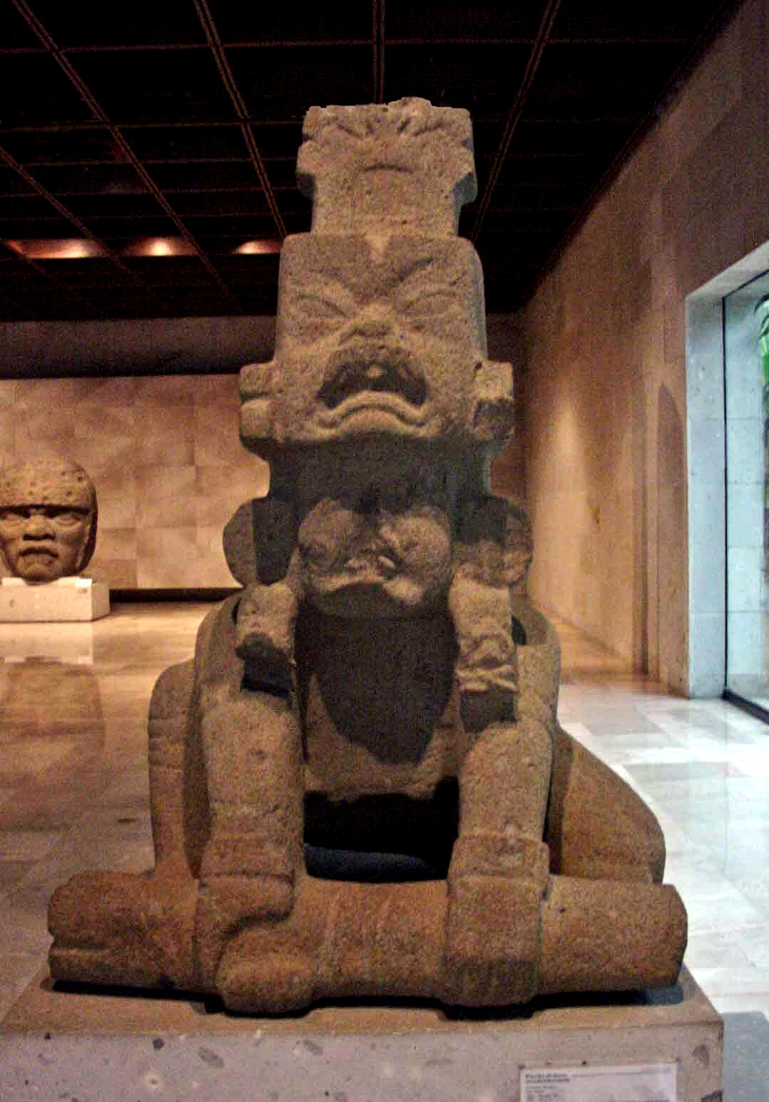 Retouched version of the original Flickr photo